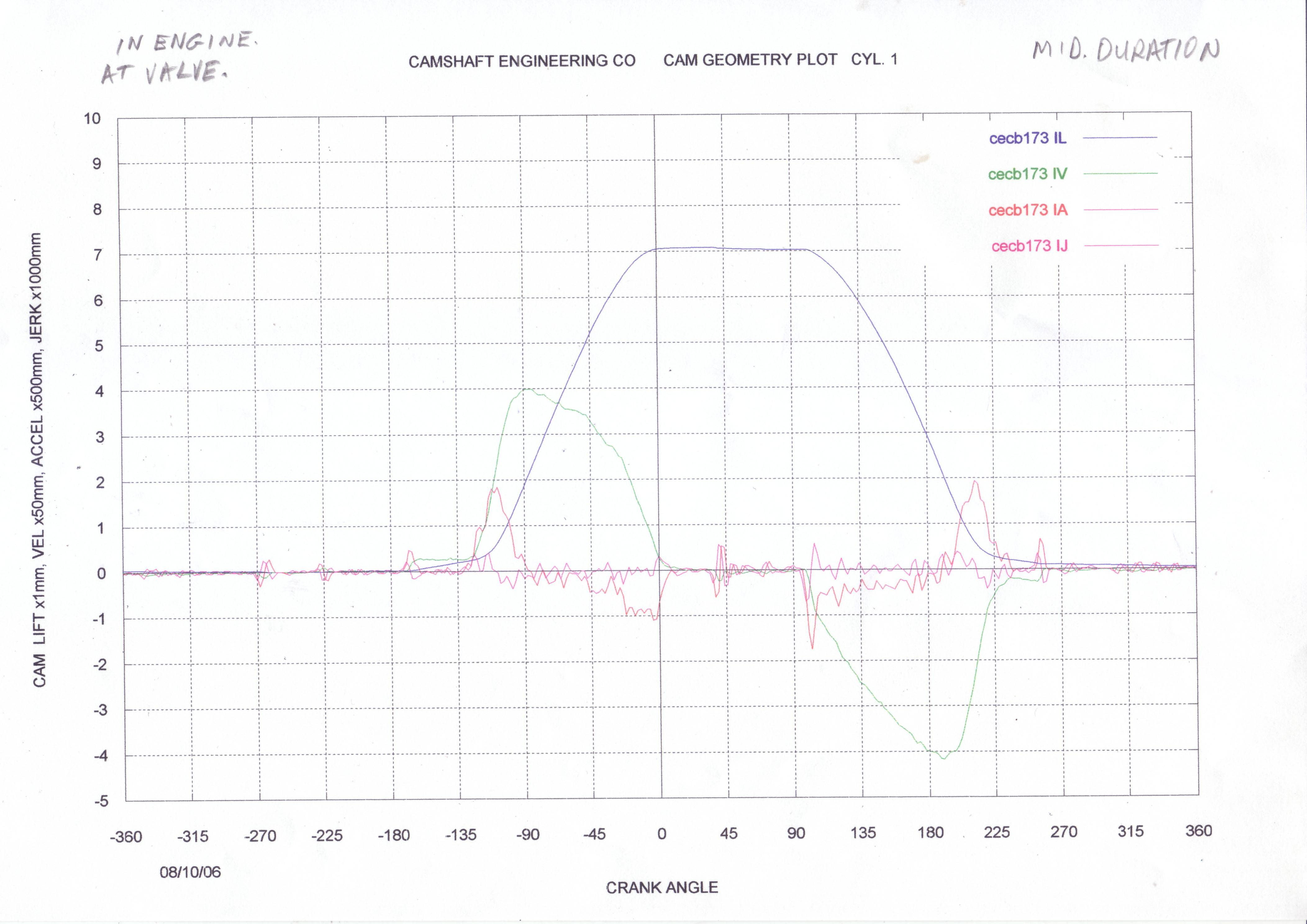 Lift graph Suzuki helical cam mid duration.